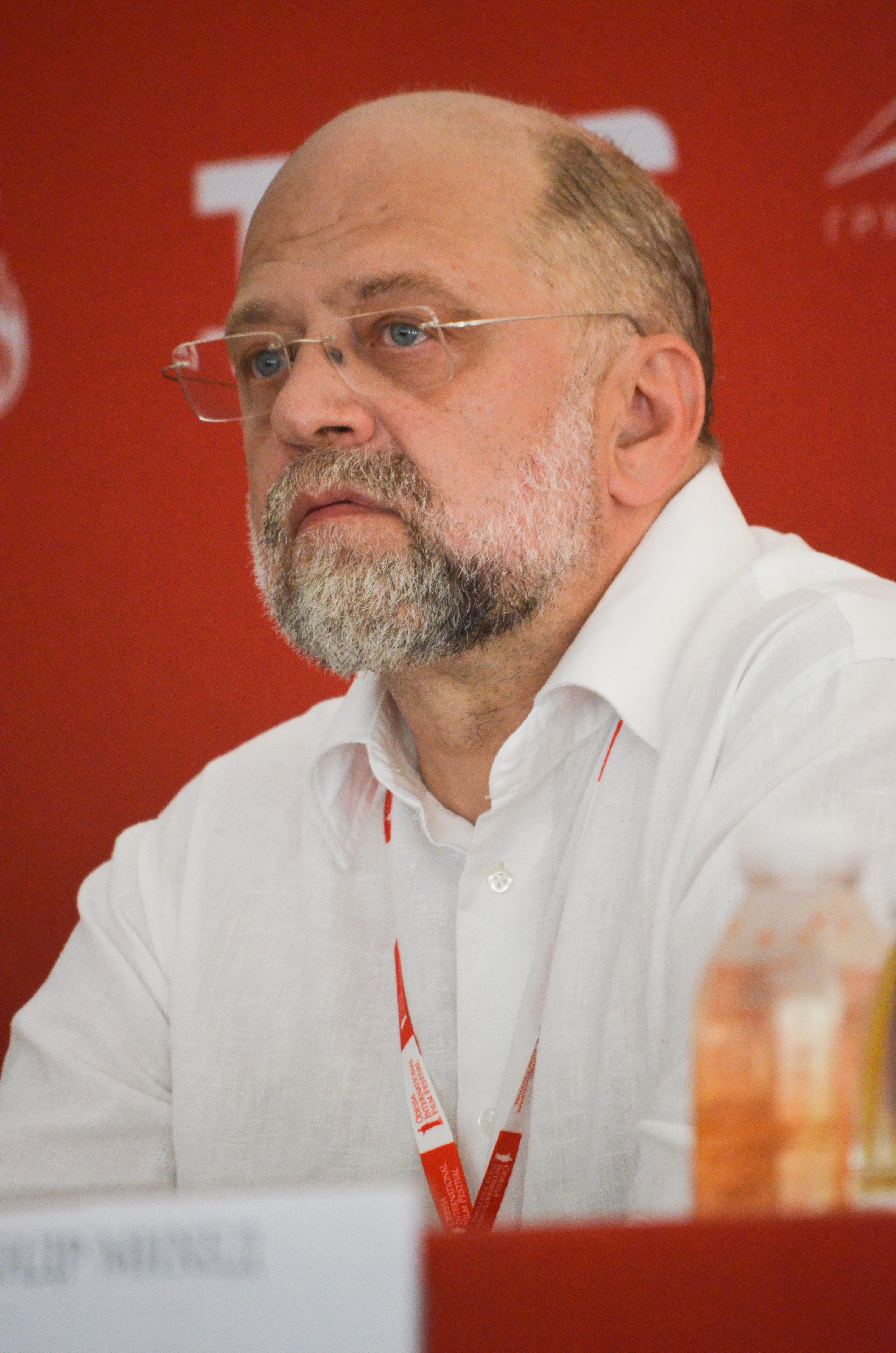 Dmytro Tomashpolskyi at the 5th Odessa International Film Festival.